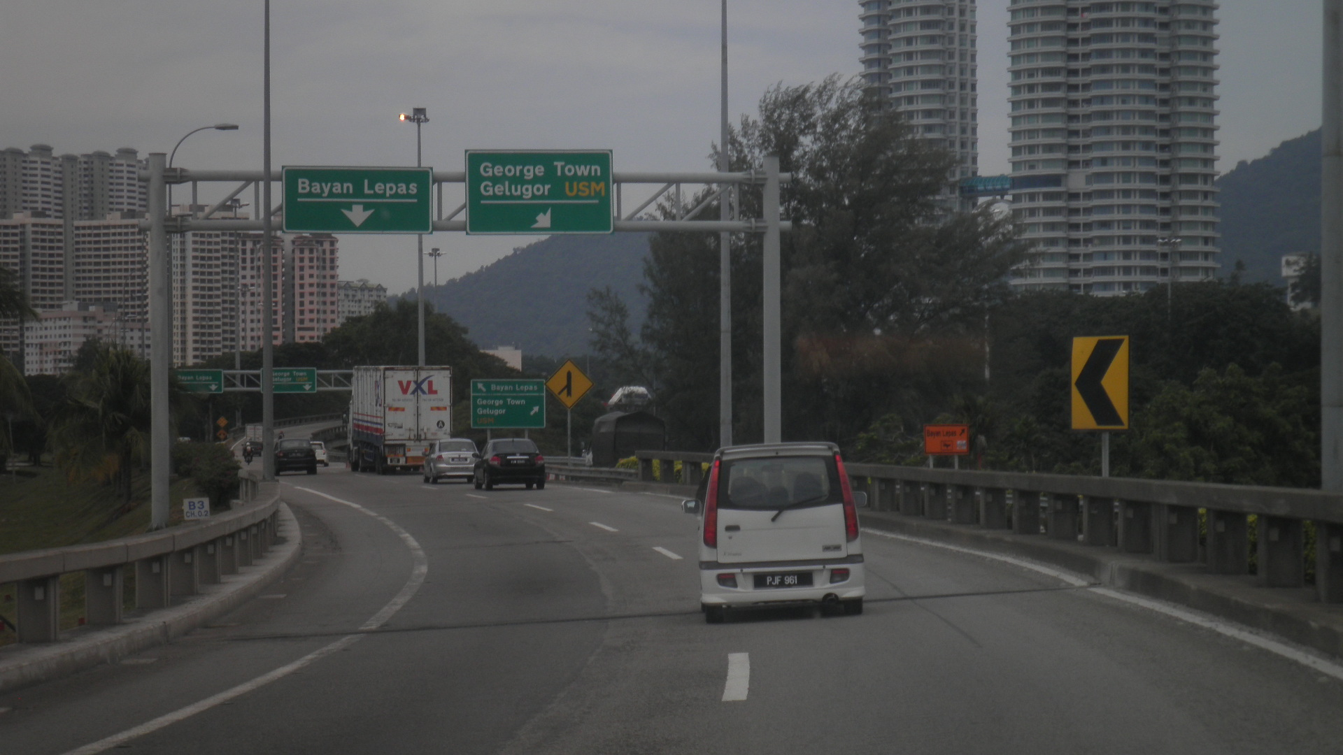 Exit to Bayan Lepas, George Town and Gelugor USM at Penang Bridge